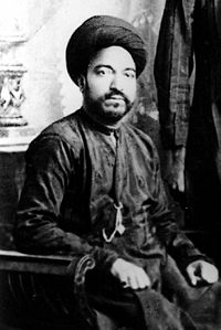 Maulana Syed Sibte Hasan Naqvi (مولانا سيد سبط حسن نقوى) was a Shia scholar from the family of Syed Dildar Ali Naqvi Naseerabadi aka Ghufran Ma'ab known as Khandaan-e-Ijtehad. He held the title Shamsa Ulema translating as 'the Sun of scholarsï awarded by Iraqi clergy.